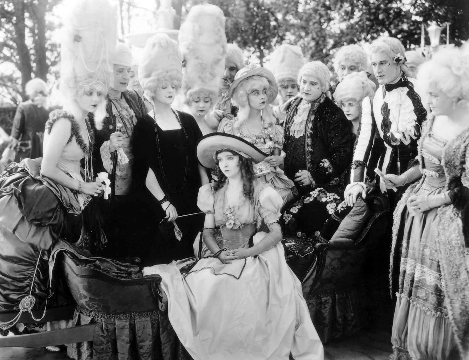 Lillian Gish (seated) and Morgan Wallace (right) in Orphans of the Storm (1921) - cropped screenshot